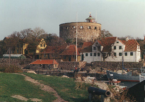 View from Frederiksø to Christiansø.